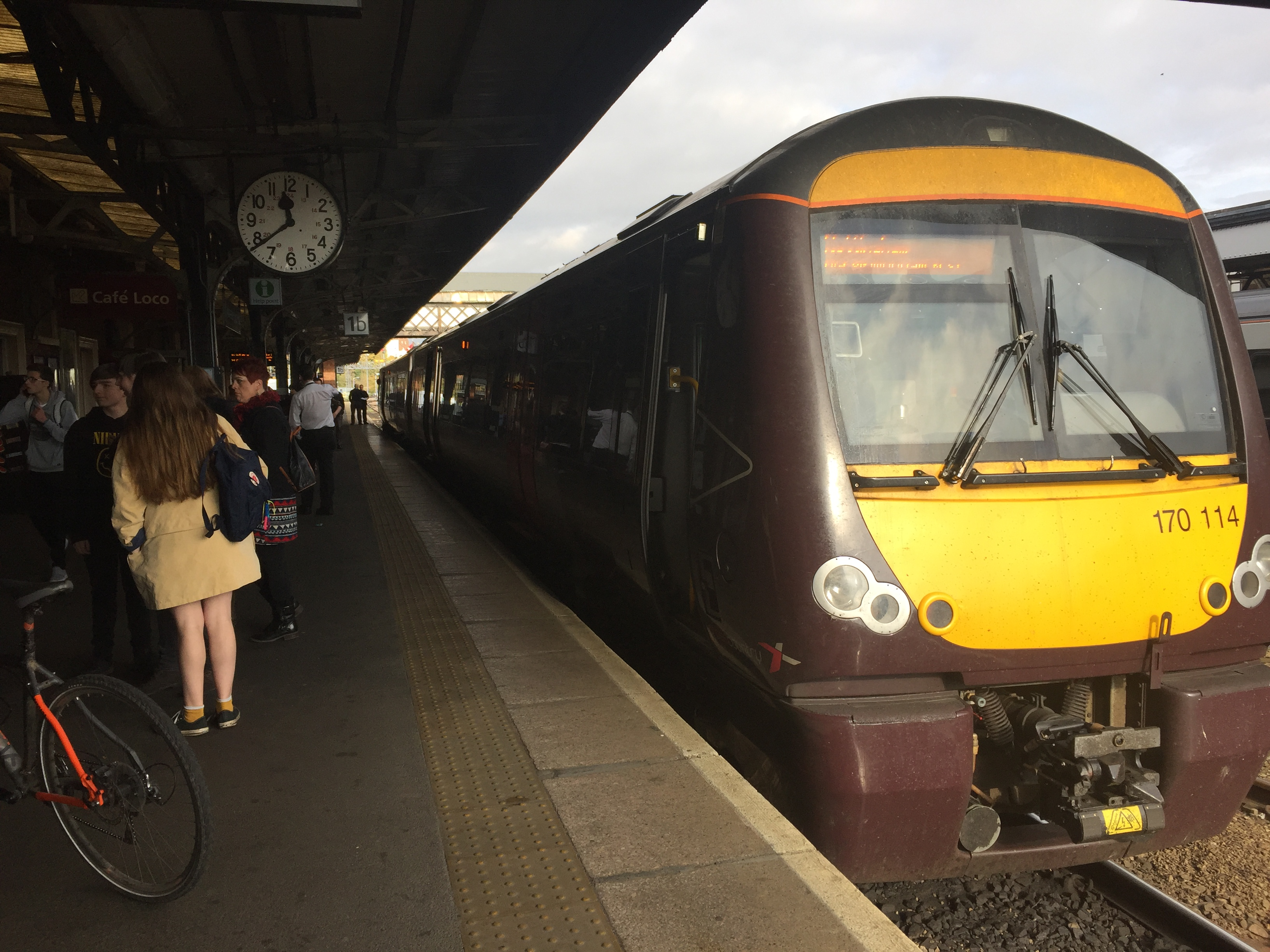 Rare CrossCountry train calling at Worcester Shrub Hill